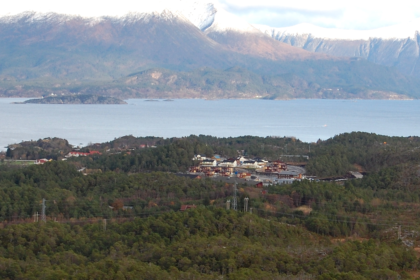 Parts of Rensvik in Kristiansund, Møre og Romsdal